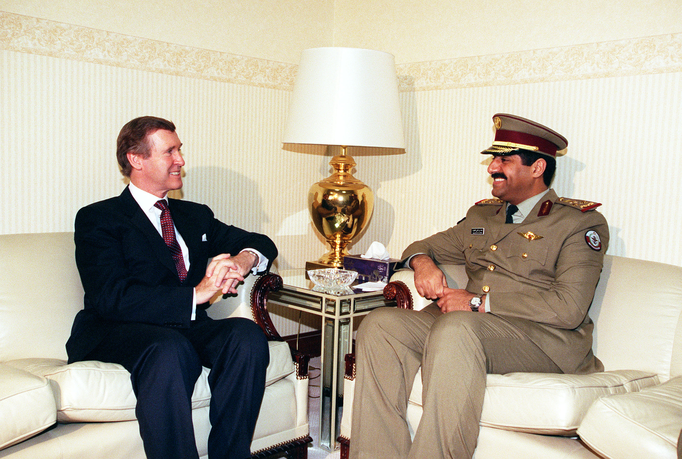 Secretary of Defense William S. Cohen (left) meets with Army Chief of Staff General Hamad Bin Ali Al-Attiyah (right), at Military Headquarters, Doha, Qatar, on Oct. 11, 1998. Cohen is in the Persian Gulf region to visit with U.S. troops and heads of state in the Gulf countries.